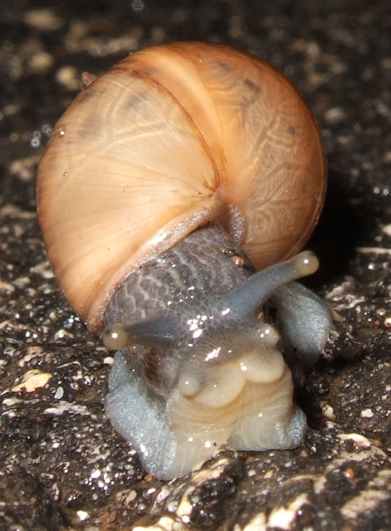 Photograph of a decollate snail Rumina decollata taken in Austin, Texas in May 2007. This is a crop, Originals are available at